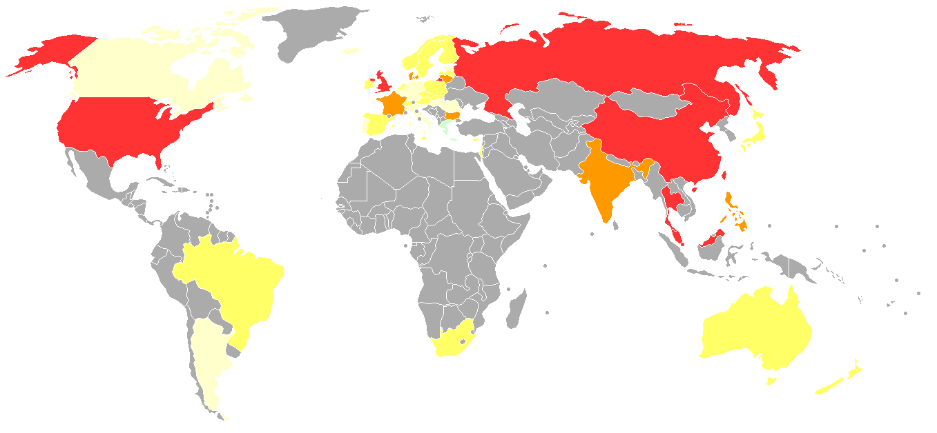 Privacy International 2007 privacy ranking Consistently upholds human rights standards Significant protections and safeguards Adequate safeguards against abuse Some safeguards but weakened protections Systemic failure to uphold safeguards Extensive surveillance societies Endemic surveillance societies